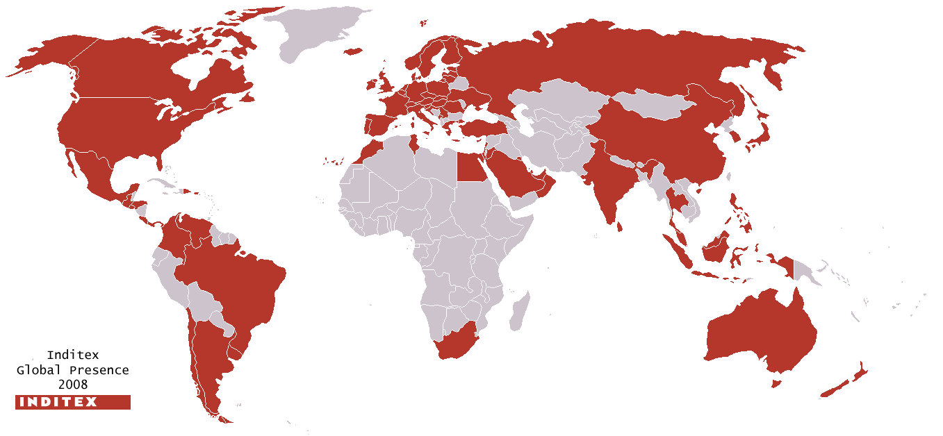 zara store coverage as of 2011